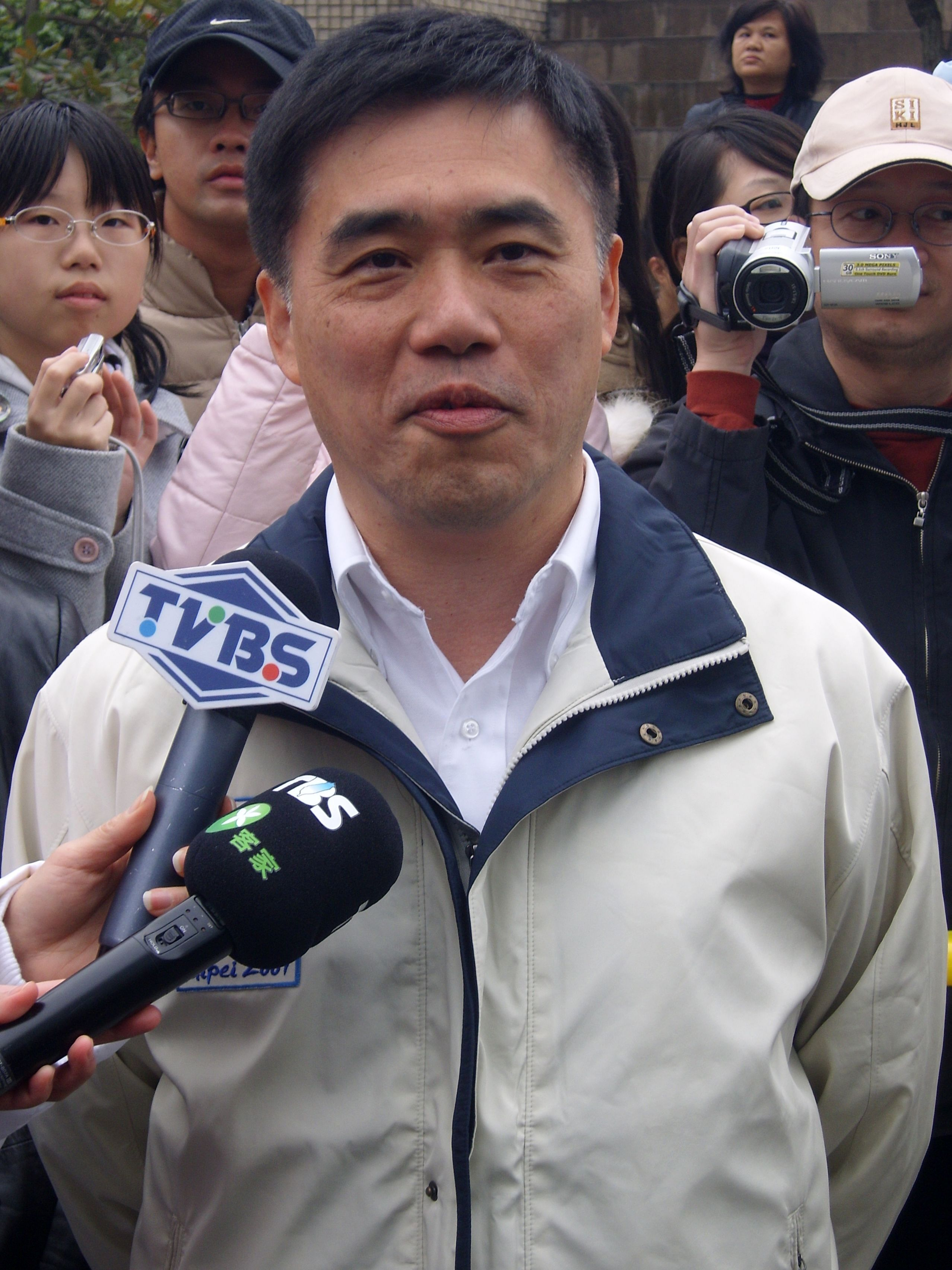 Hau Lung-pin at Parade Festival of 2008 Taipei New Year's Eve Party.Bân-lâm-gú: Hok Liông-pin tī Tâi-pak tsuè High Sin-nî-siânn, 2008 khuà nî buán-huē hē-lia̍t ua̍h-tāng ê iû-hîng ka-nî-huâ. 郝龍斌佇「臺北最High新年城-2008跨年晚會」系列活動的遊行嘉年華